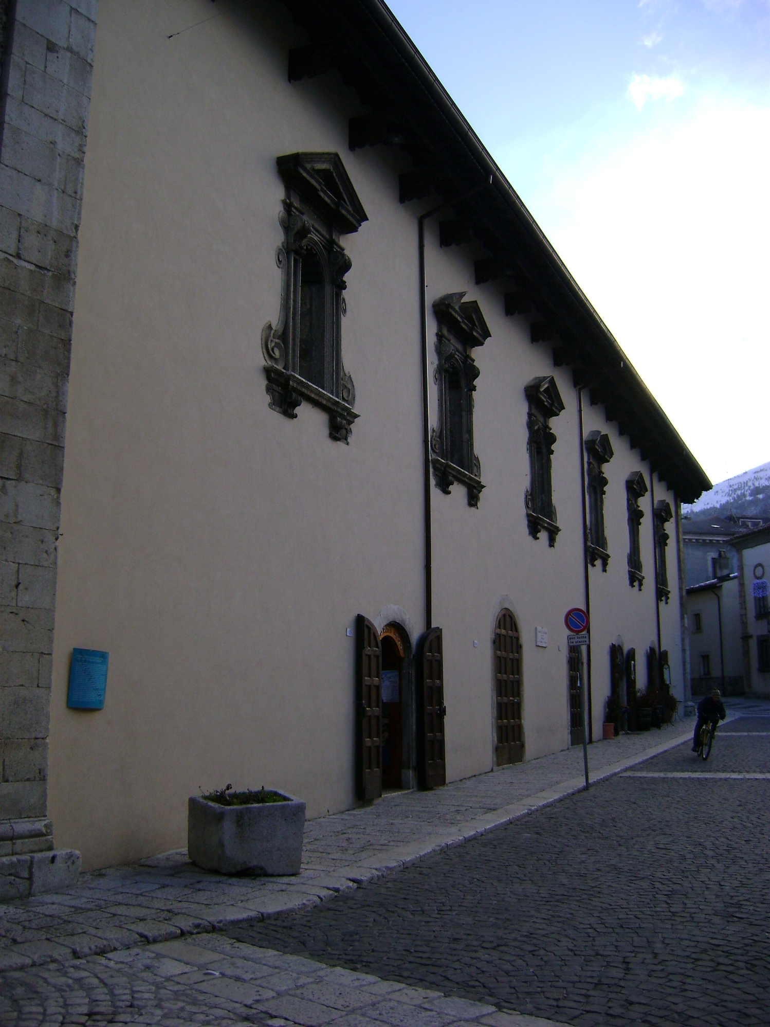 Fanzago palace, in Pescocostanzo, in the province of Chieti, Abruzzo